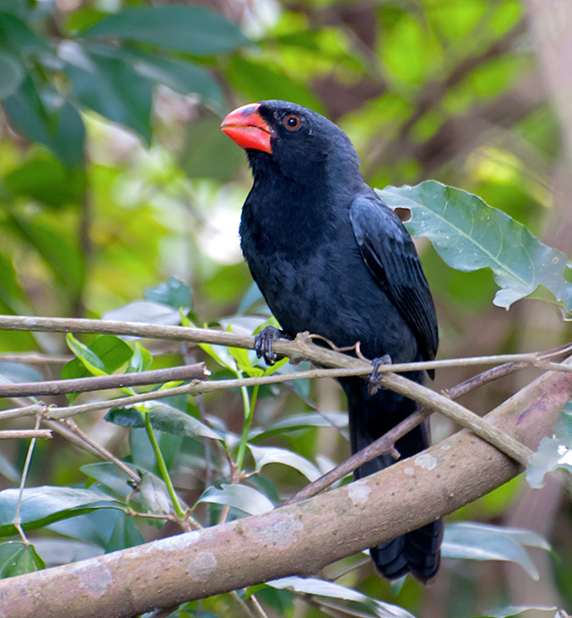 A Black-throated Grosbeak in Piraju, São Paulo, Brazil.